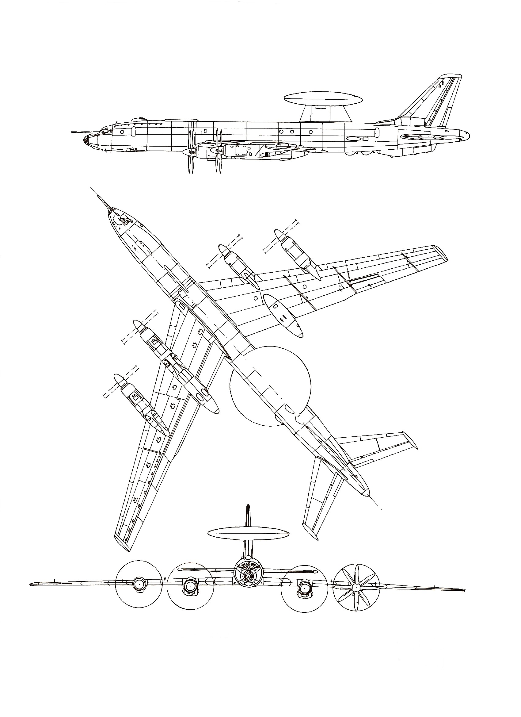 A line drawing of Tupolev TU-126 'Moss'